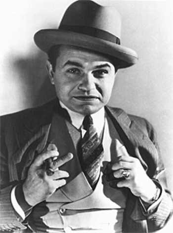 Publicity still of actor Edward G. Robinson.